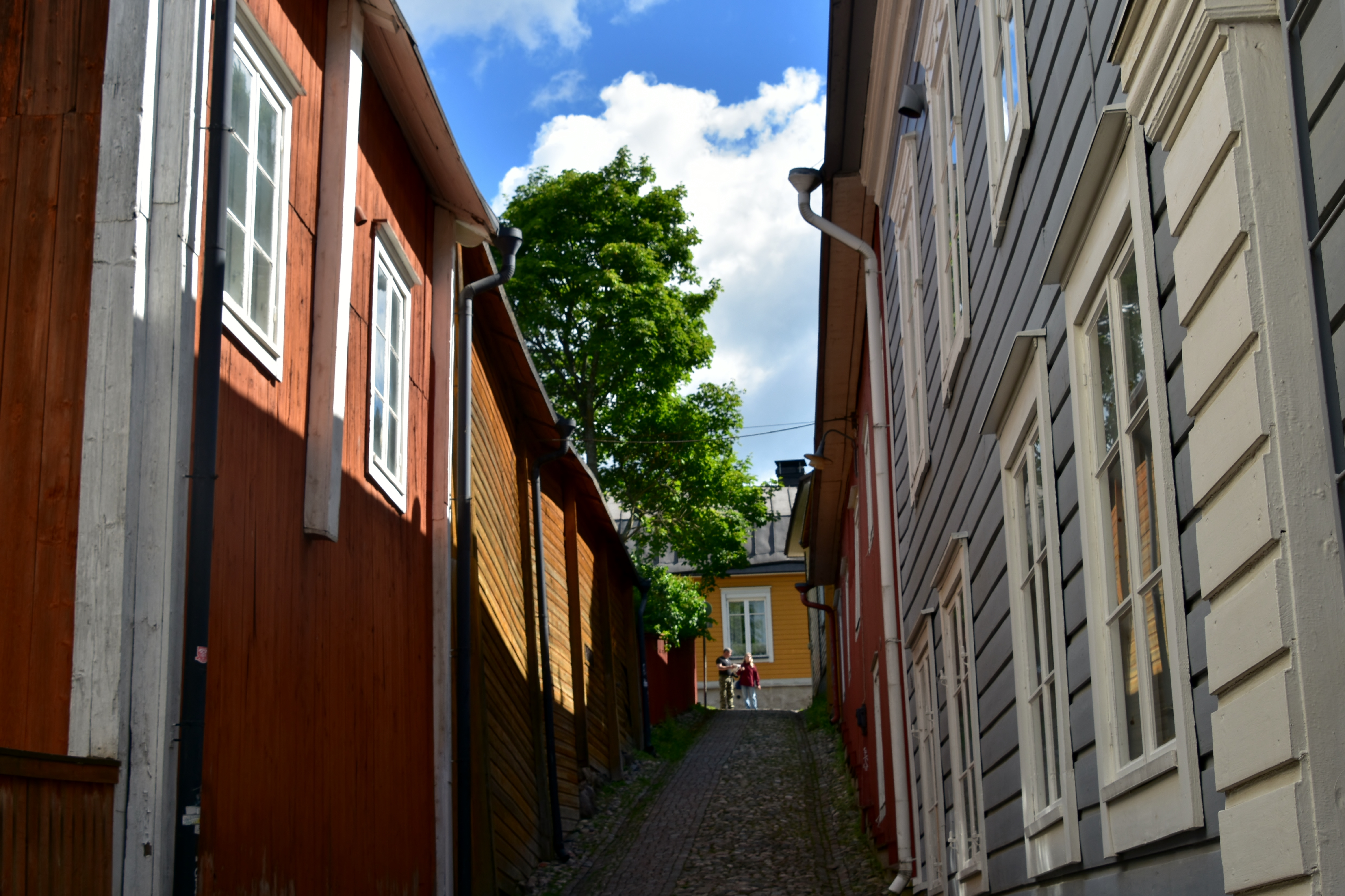 Porvoo Old Town (13)